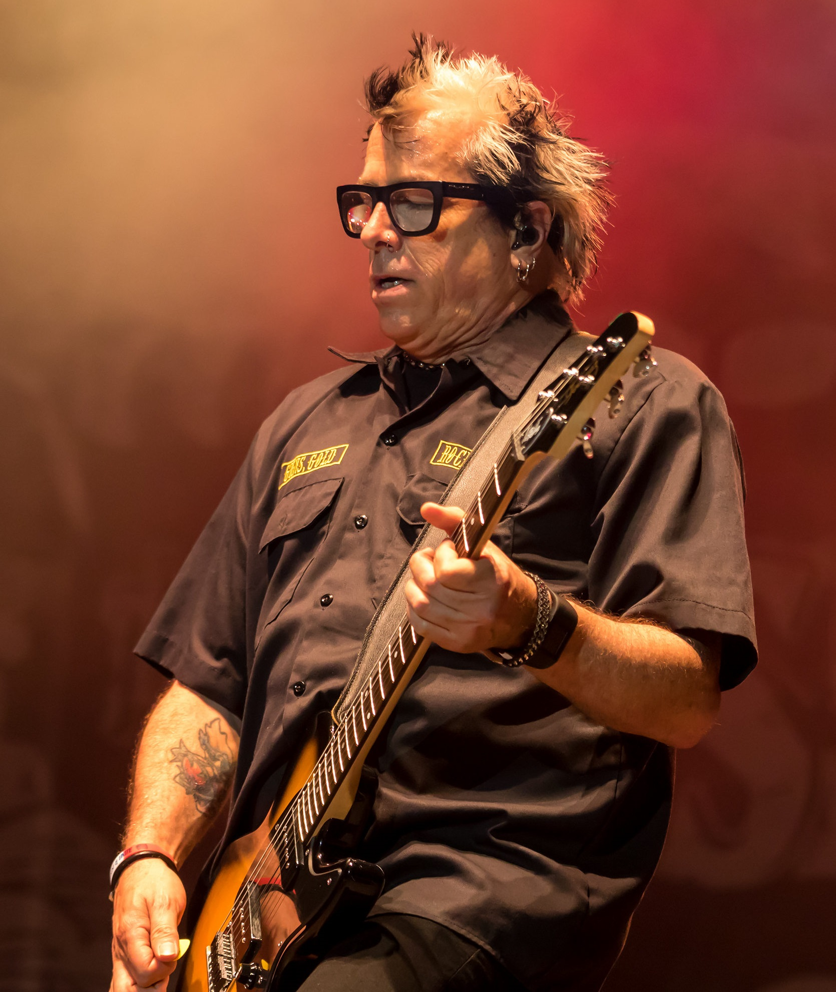 The Offspring performing at River City Rockfest at the AT&T Center in San Antonio, Texas on May 27, 2017.